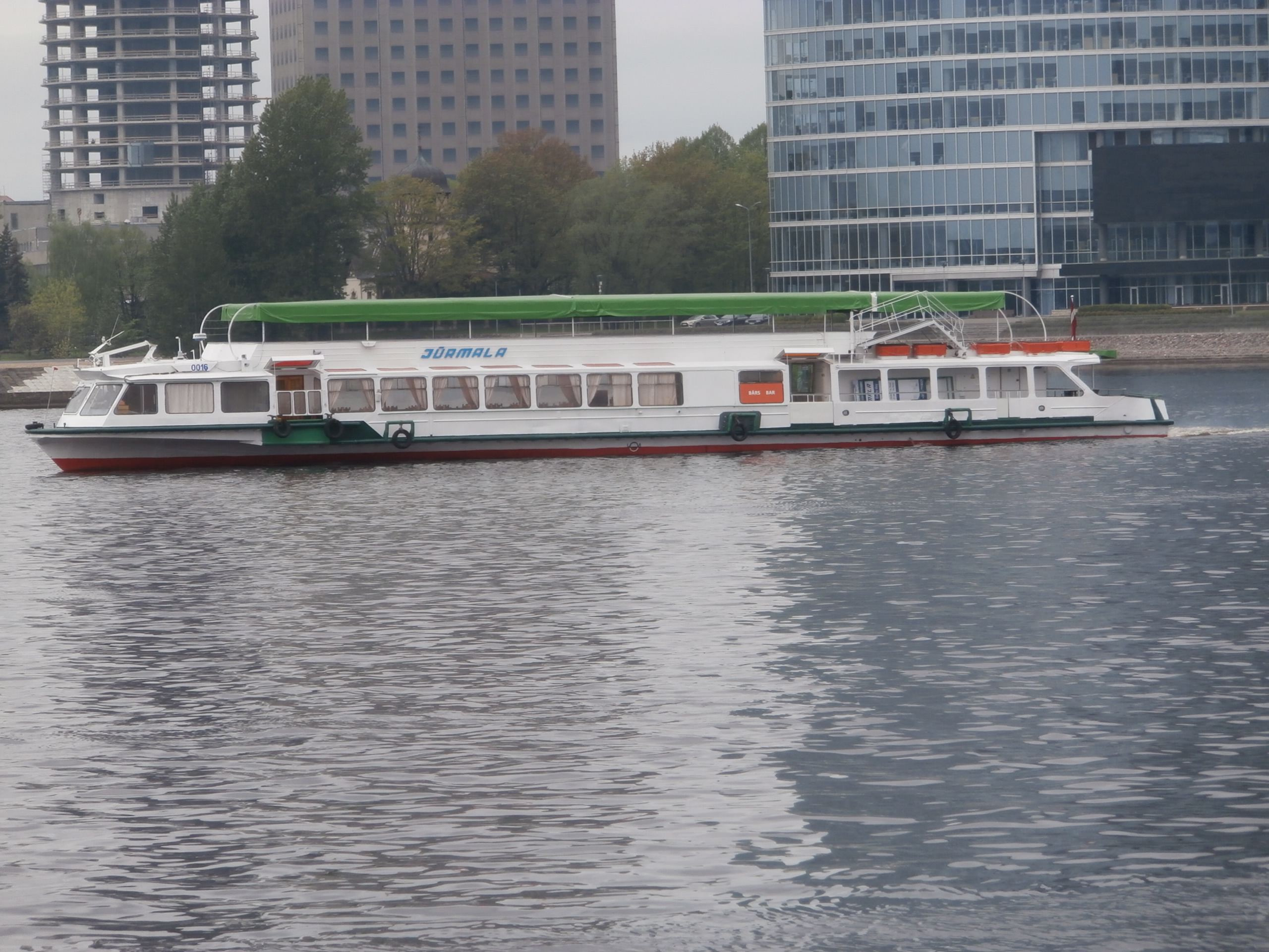 Jūrmala on the Daugava River in Riga 14 May 2014